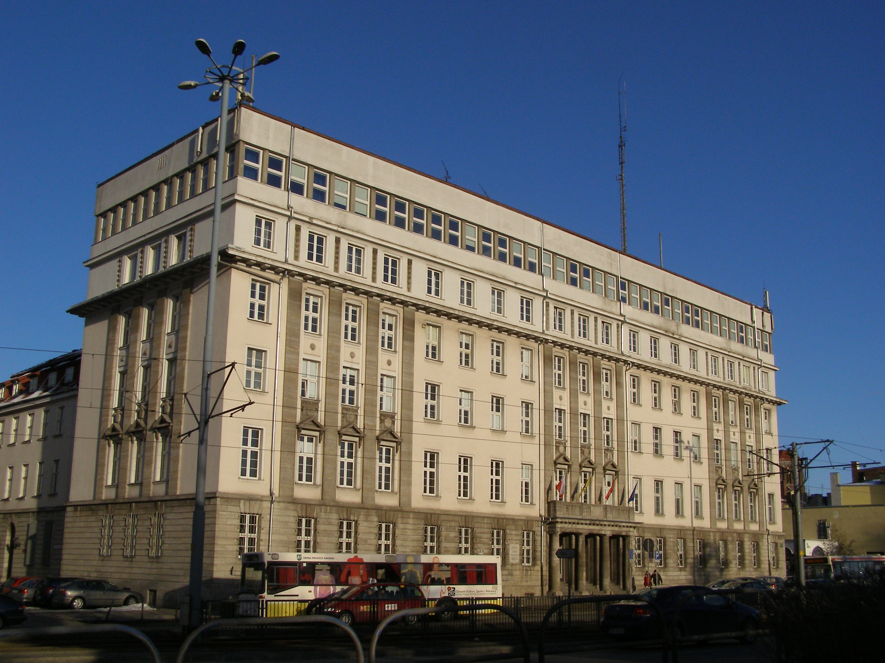 Gdańsk - building at 38 Wały Jagiellońskie str.